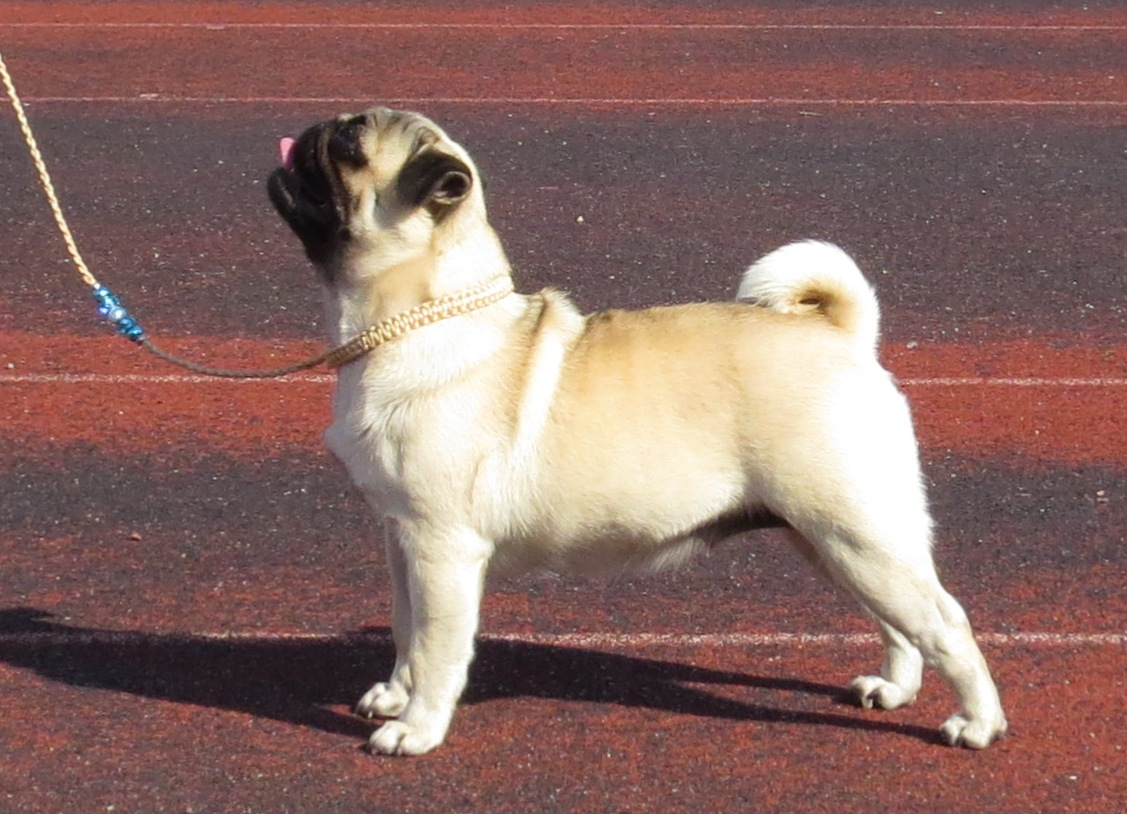 Pug in Tallinn duo CACIB, 17-18 Aug 2013, Best in Puppies competition